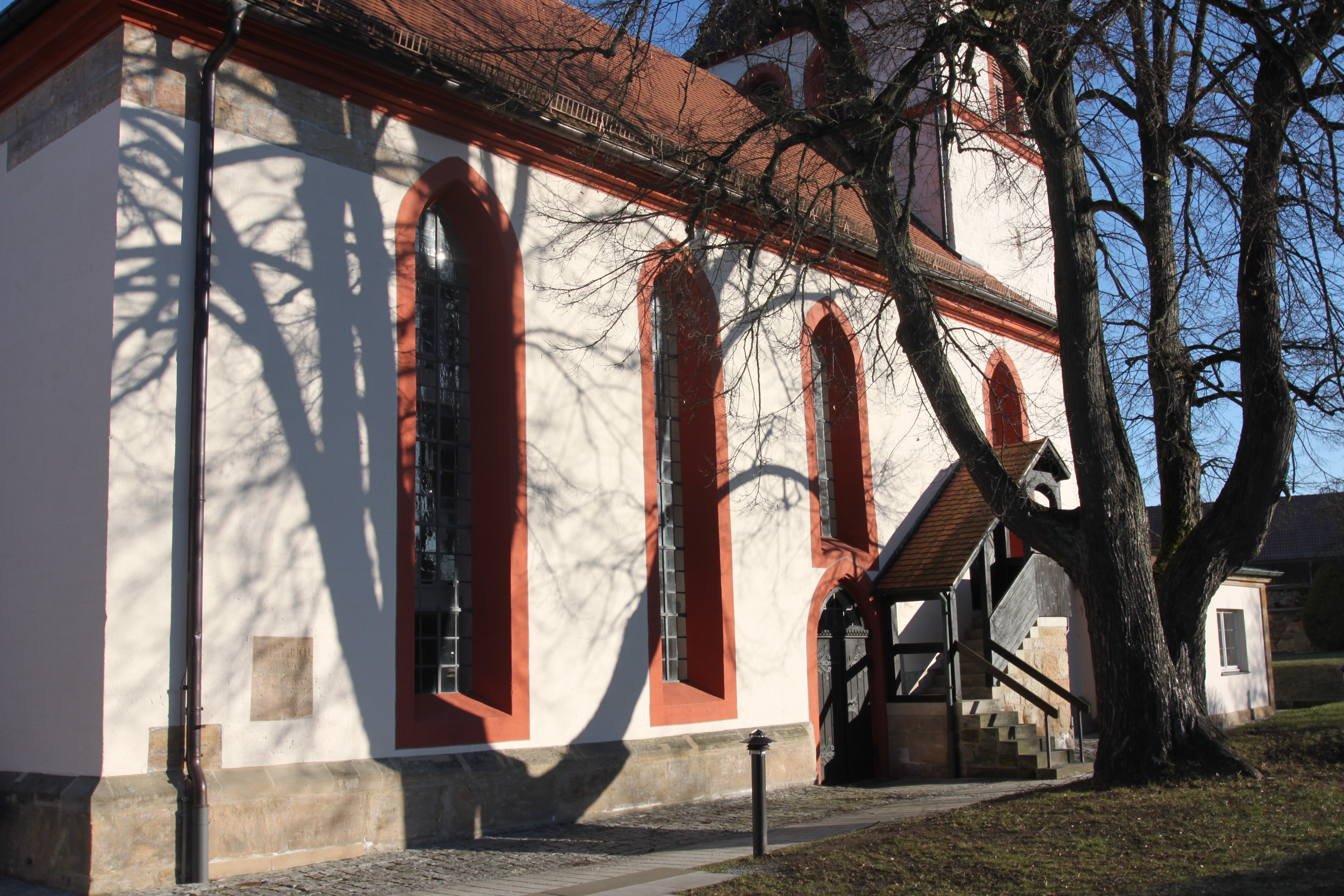 Church St. Aegidius in Melkendorf district of Kulmbach